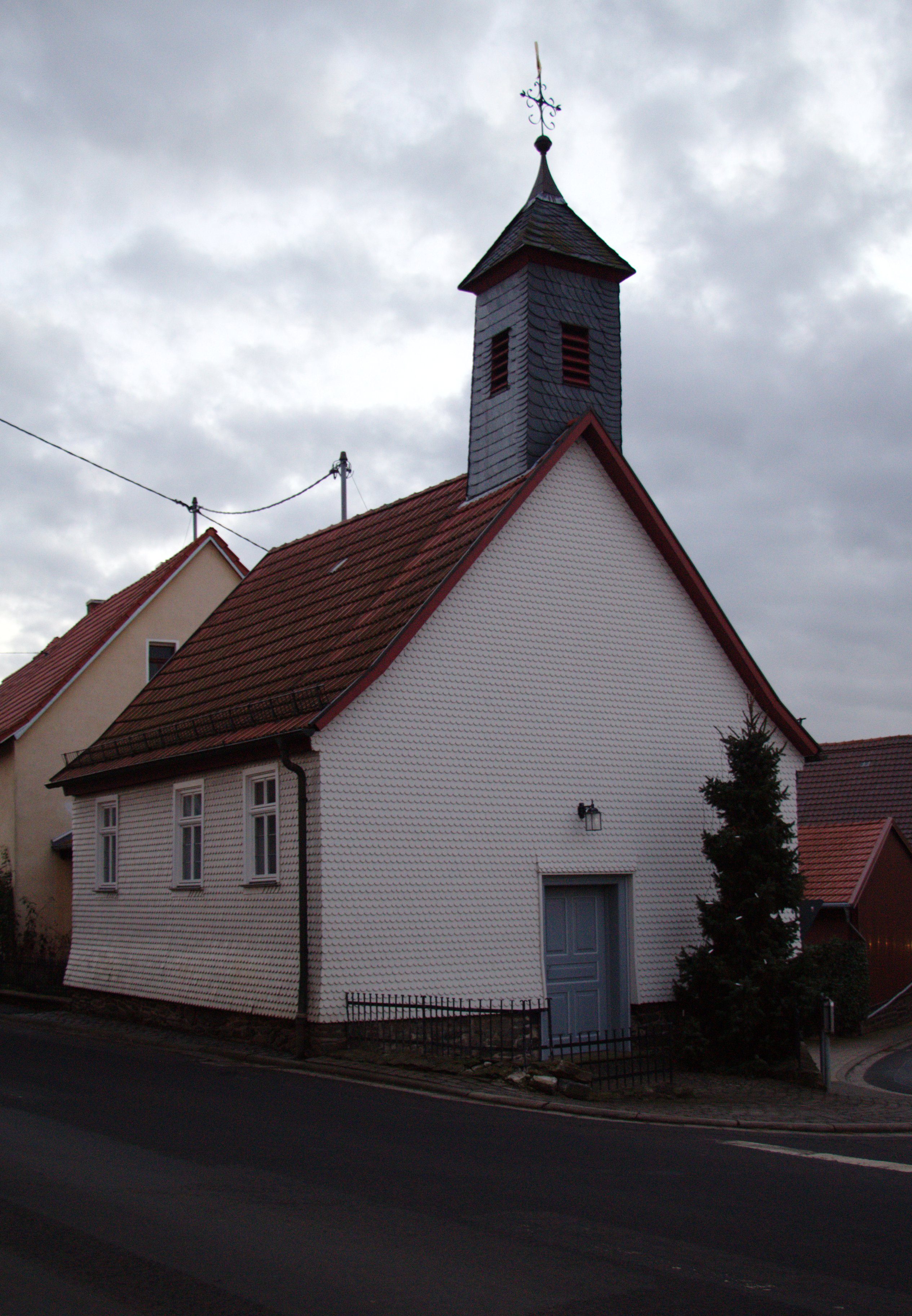 Church in Strebendorf, Ober-Breidenbacher Strasse 2 / Romrod / Hesse / Germany